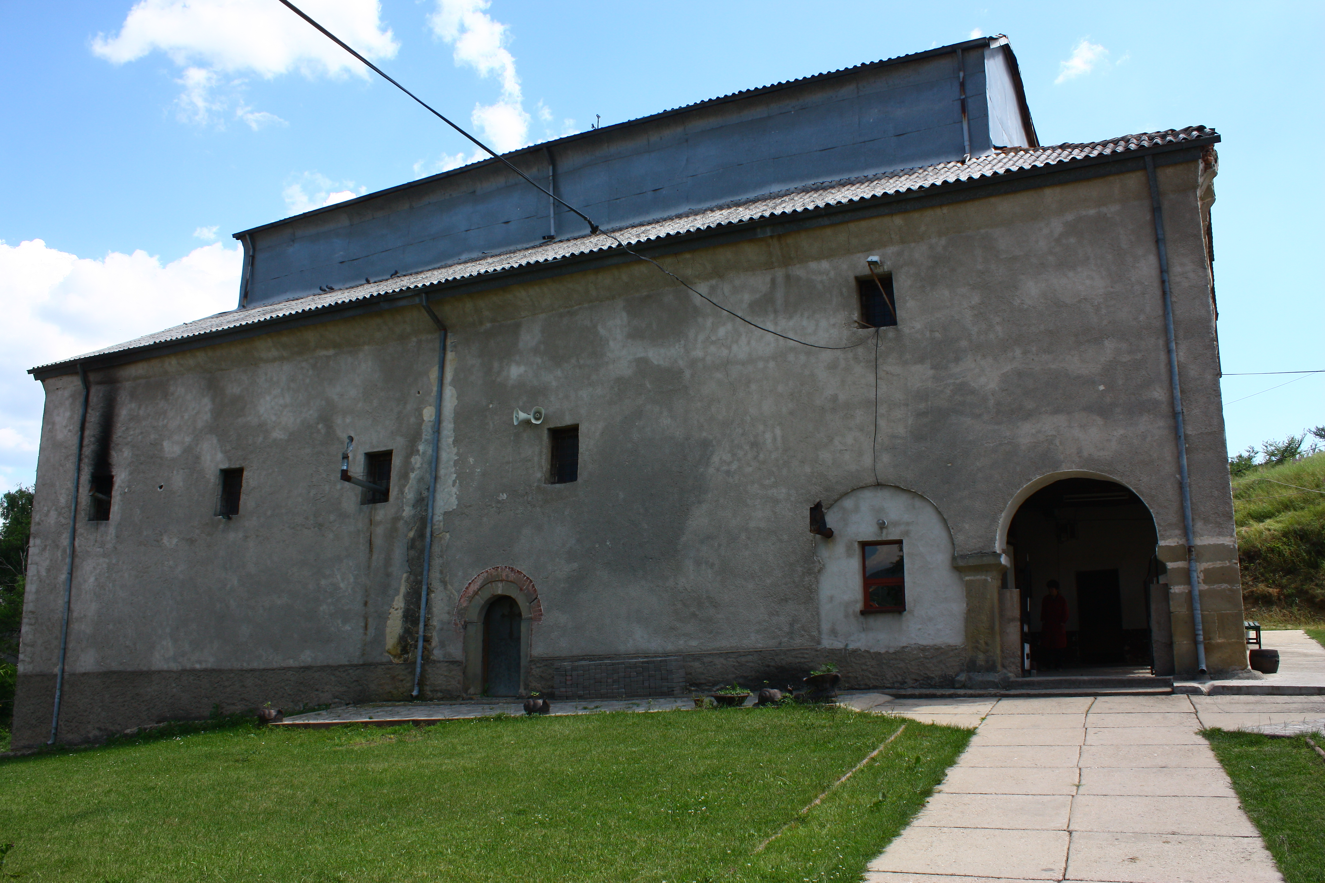 Dormition of the Theotokos Church in Delčevo, Macedonia